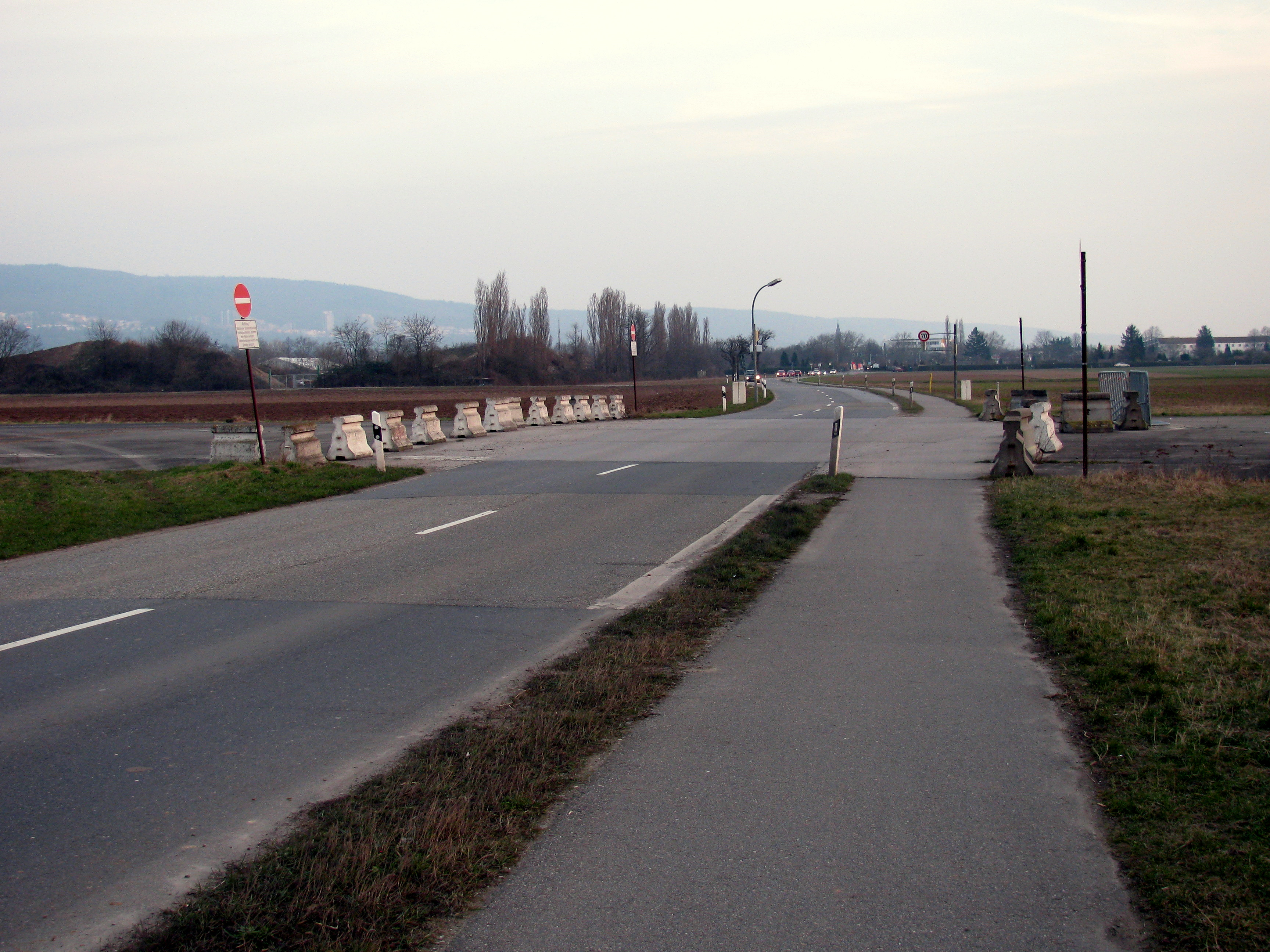 Intersection of street with the inoperative runway of the Heidelberg AHP Heliport (view from north)